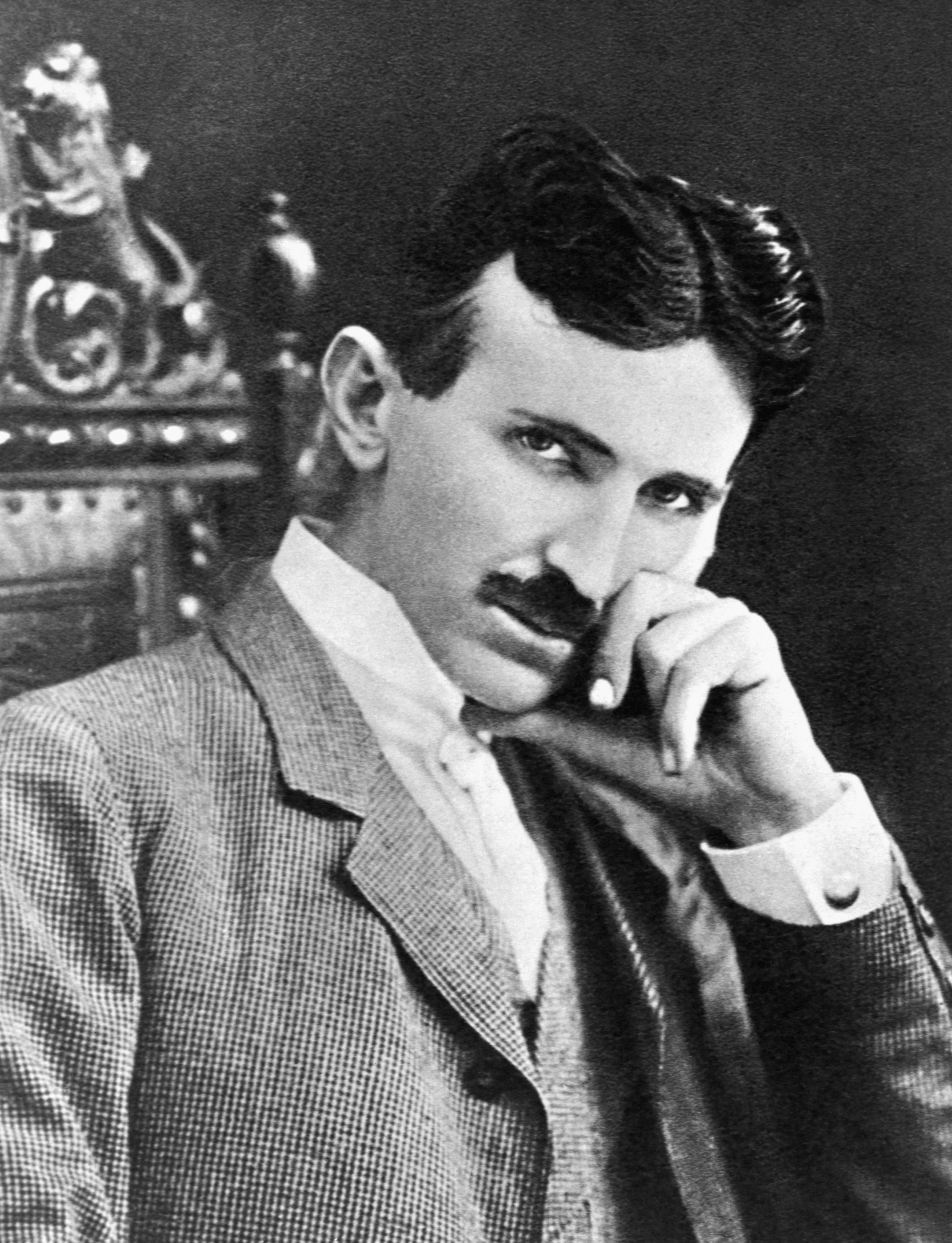 A photograph of Nikola Tesla (1856-1943) at age 40.